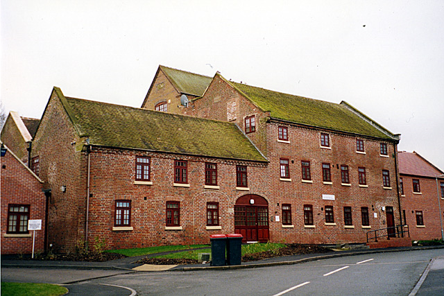 Old Mill, Wrockwardine Wood This old flour mill at Wrockwardine Wood, was built alongside the old canal about 1818. In use as a mill until the thirties, it has now been converted into apartments.